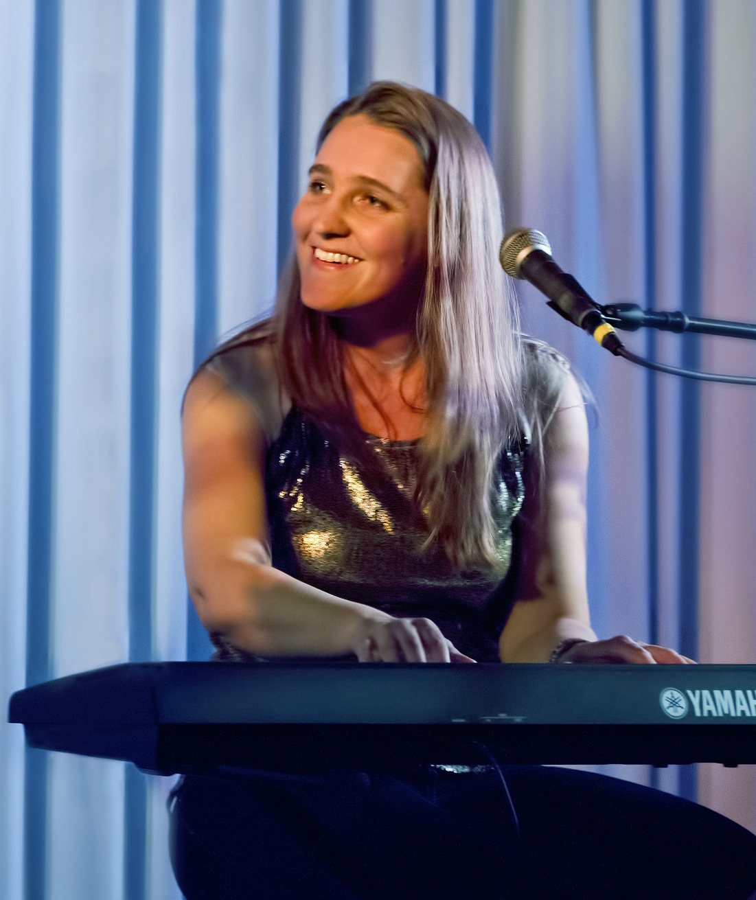 Anna Dagmar performing at the 2012 Northeast Regional Folk Alliance conference in Kerhonkson, NY. Taken with a Canon EOS 7D. Cropped to highlight subject.